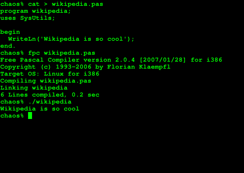 Screenshot of a program being built using Free Pascal Compiler 2.0.4 and run using zsh on a Debian GNU/Linux system.